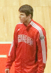 Kyle Korver of Chicago Bulls warms up before Game 5 of the 2011 NBA Eastern Conference Finals.)